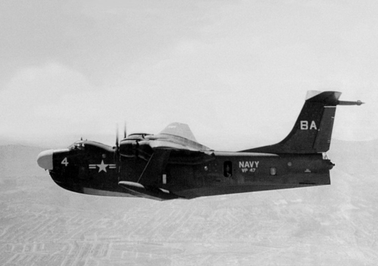 A U.S. Navy Martin P5M-2 Marlin from Patrol Squadron VP-47 Golden Swordsmen in flight near Naval Air Station Alameda, California (USA).